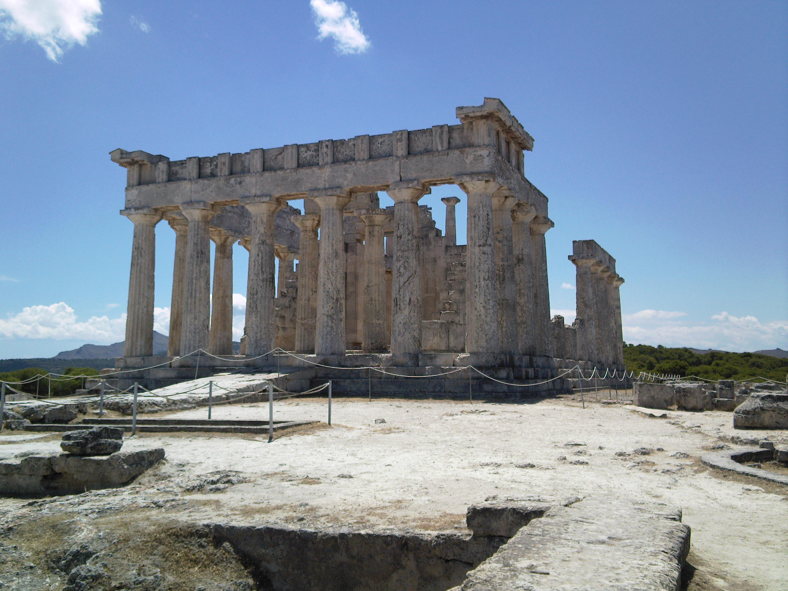 Temple oif Aphaea on the island of Egina